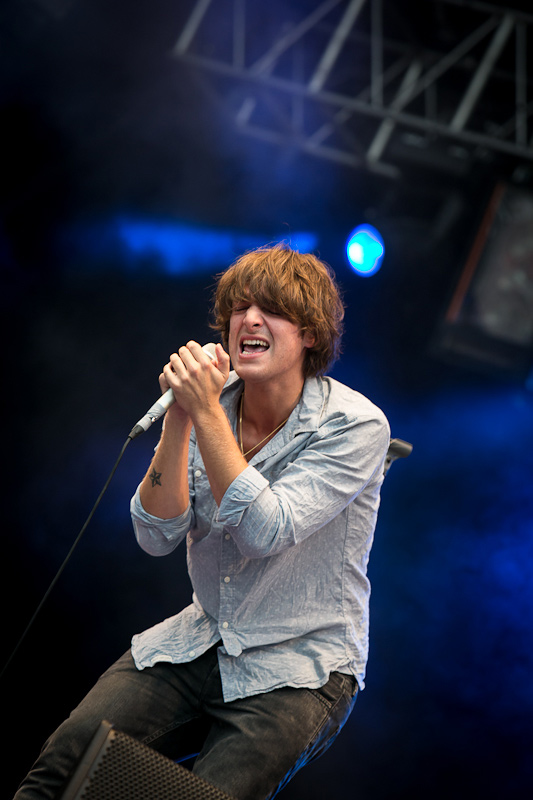 Paolo Nutini performing live in St. Gallen, Switzerland, on 22 July 2012